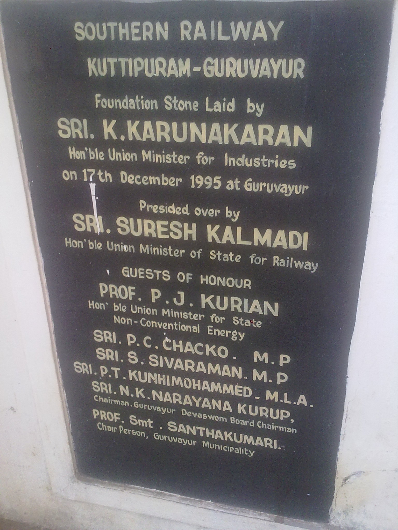 Kuttiparam-Guruvayur inaguaration plaque in Guruvayur Railway Station